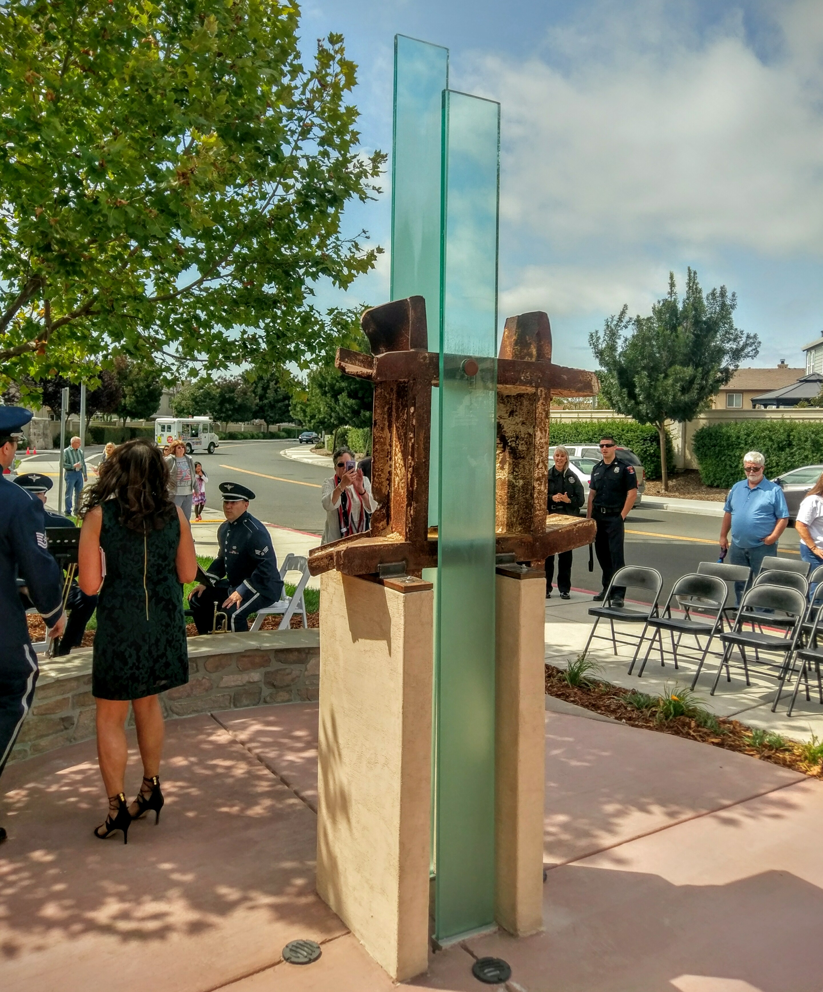 Designed by Napa glass artist Gordon Heather, this memorial incorporates steel from the World Trade Center. Photo by Jim Heaphy.